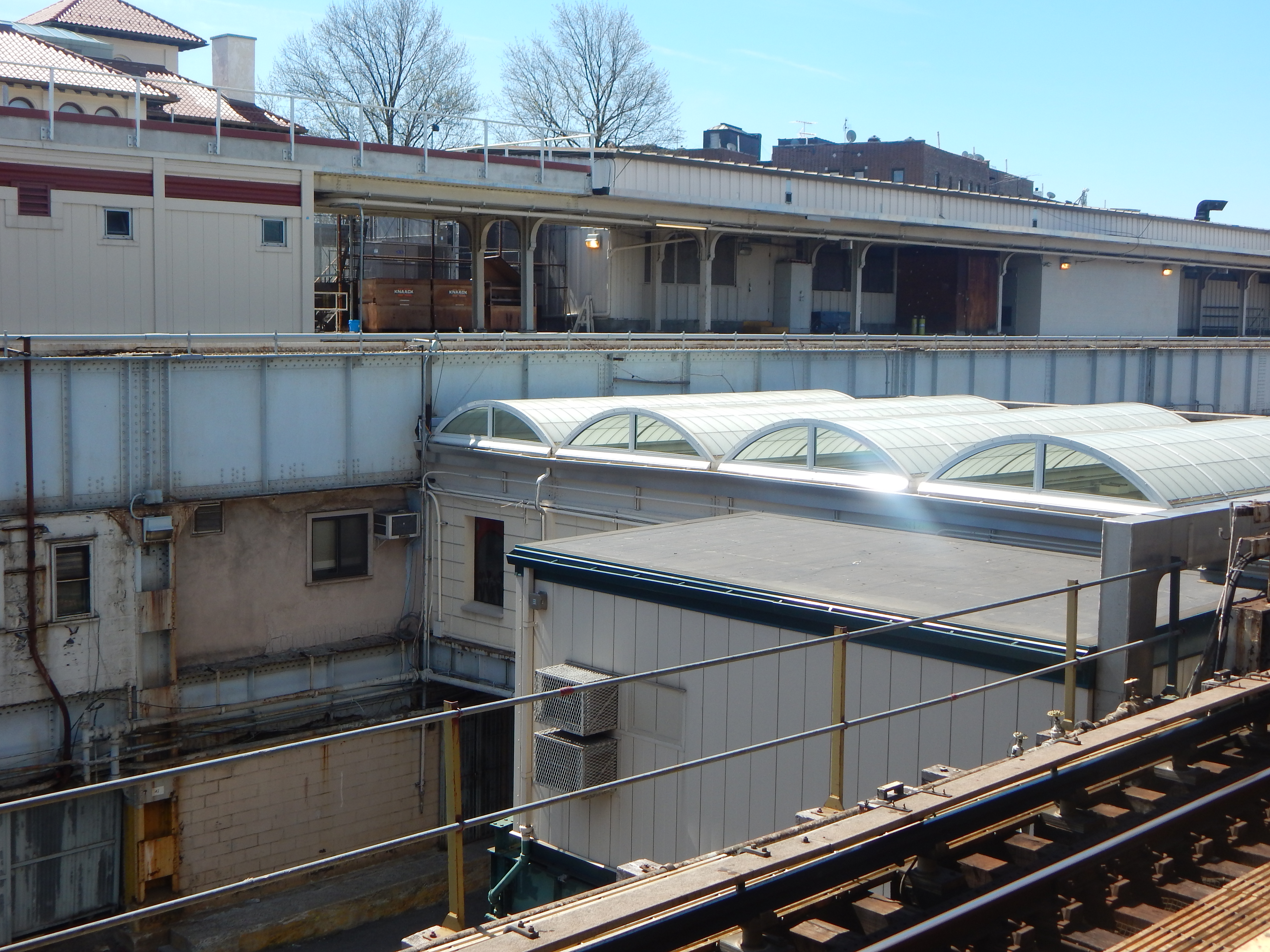 Bronx Park, New York